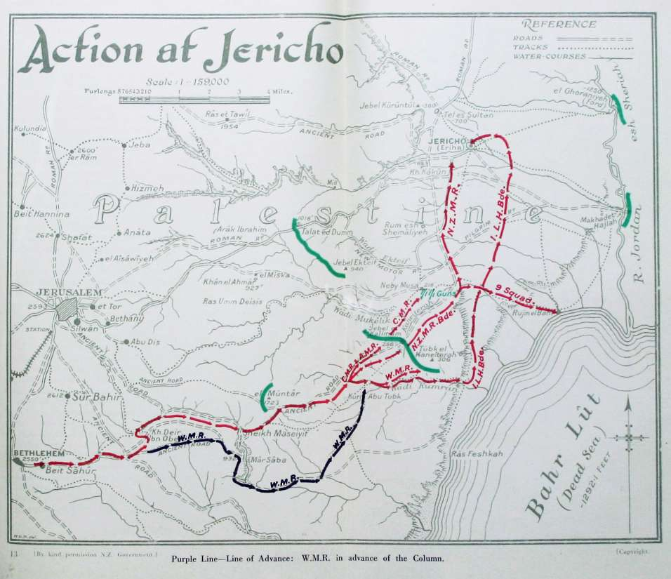 Action at Jericho